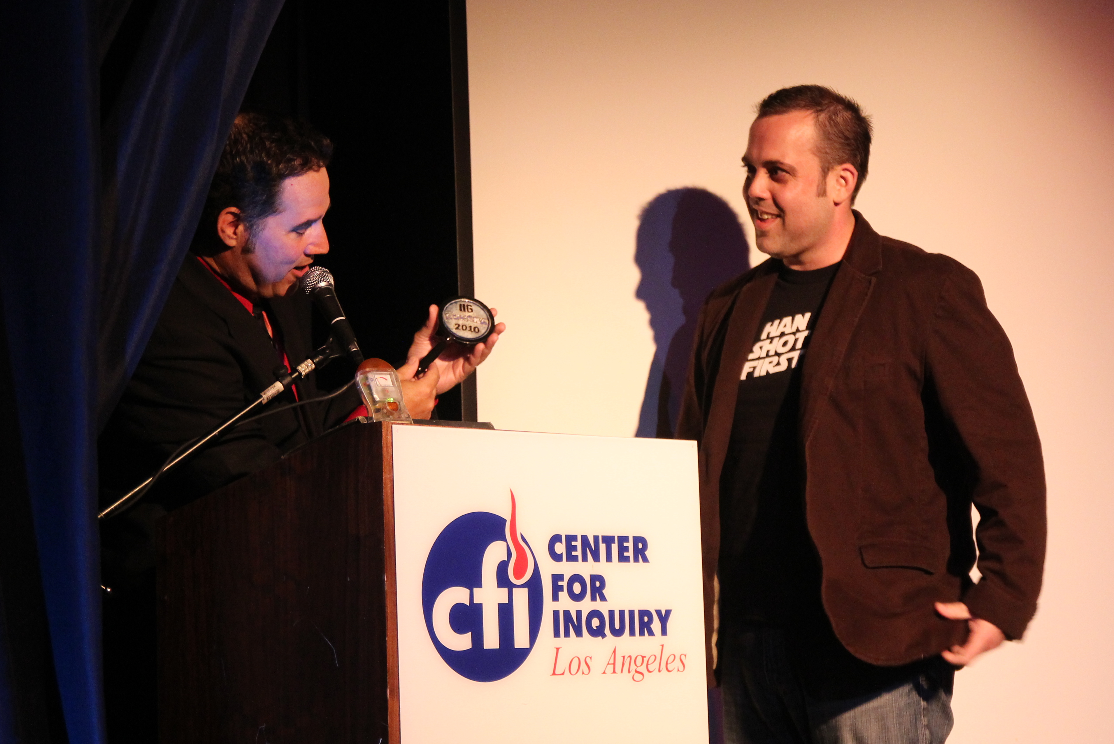 James Underdown director of CFI West gives an award for outstanding critical thinking on television for the show "Eureka" at the 10th anniversary party for IIG West.